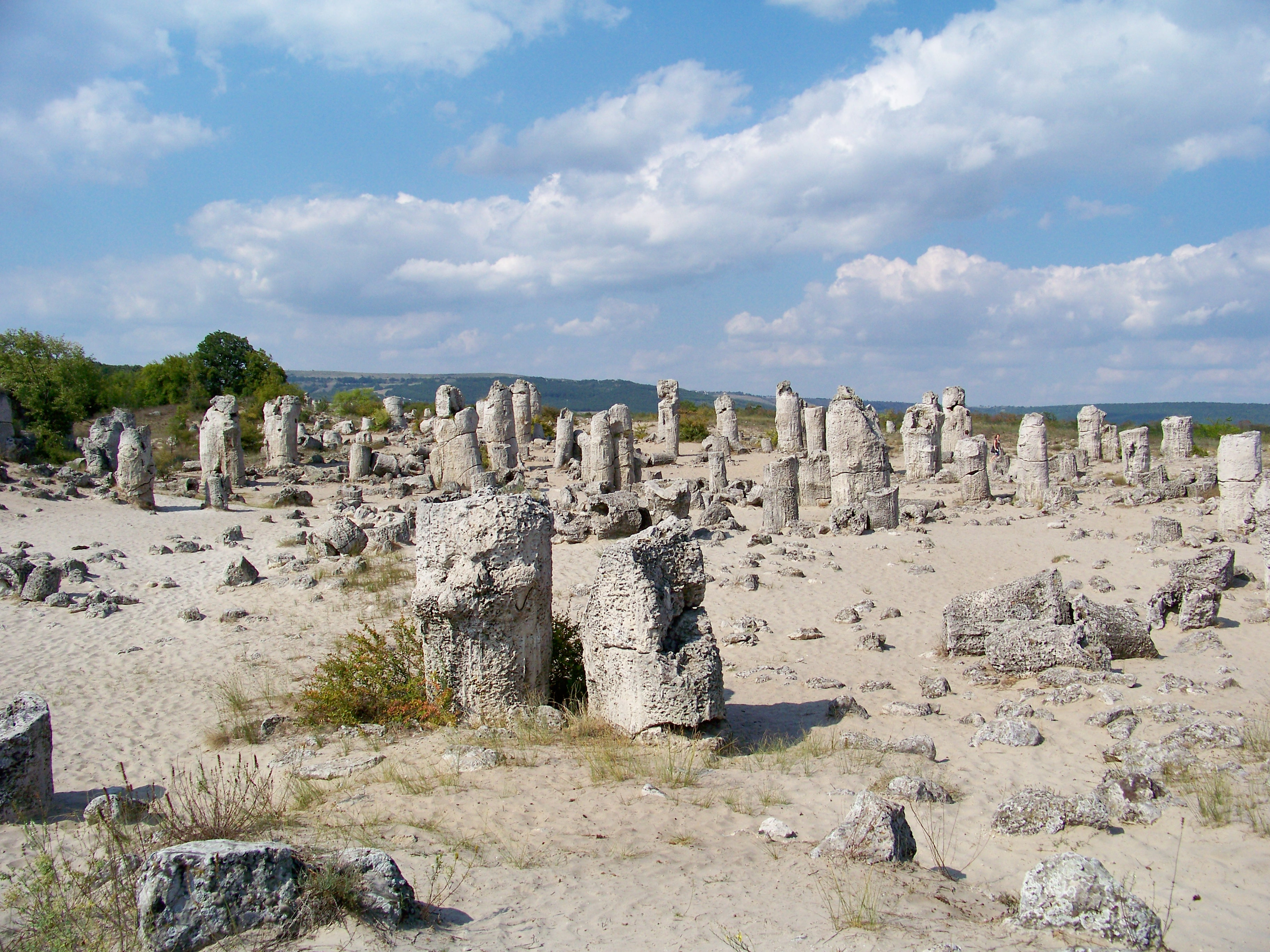 Pobiti Kamani